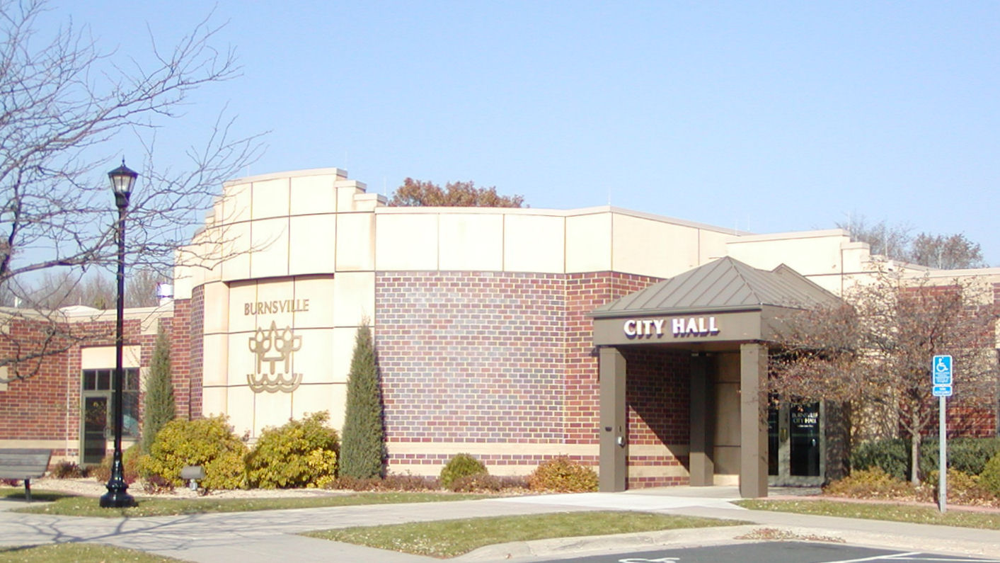 Burnsville City Hall. taken by William Wesen 10/27/2006